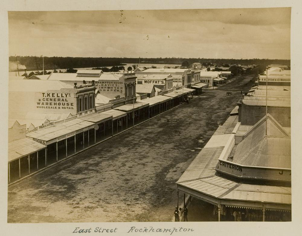 East Street in Rockhampton, ca. 1887. Local merchants and their shops can be seen in this aerial view.